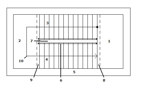 Půdorys schodiště (Ground plan stairway)